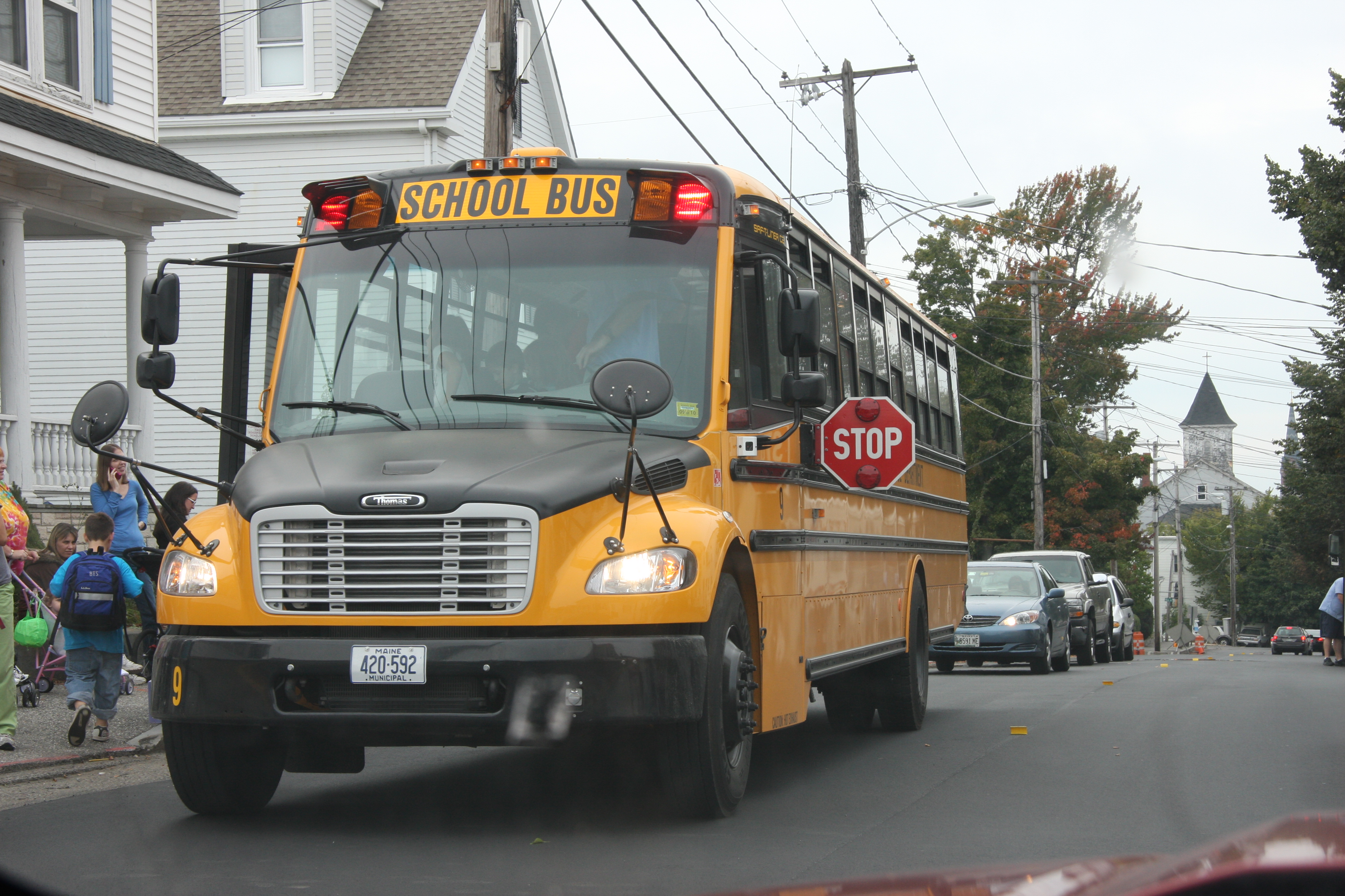 A photograph of a school bus unloading and loading students on a street in Maine. The bus is a late 2000s Thomas Built Buses Saf-T-Liner C2, built in High Point, North Carolina.